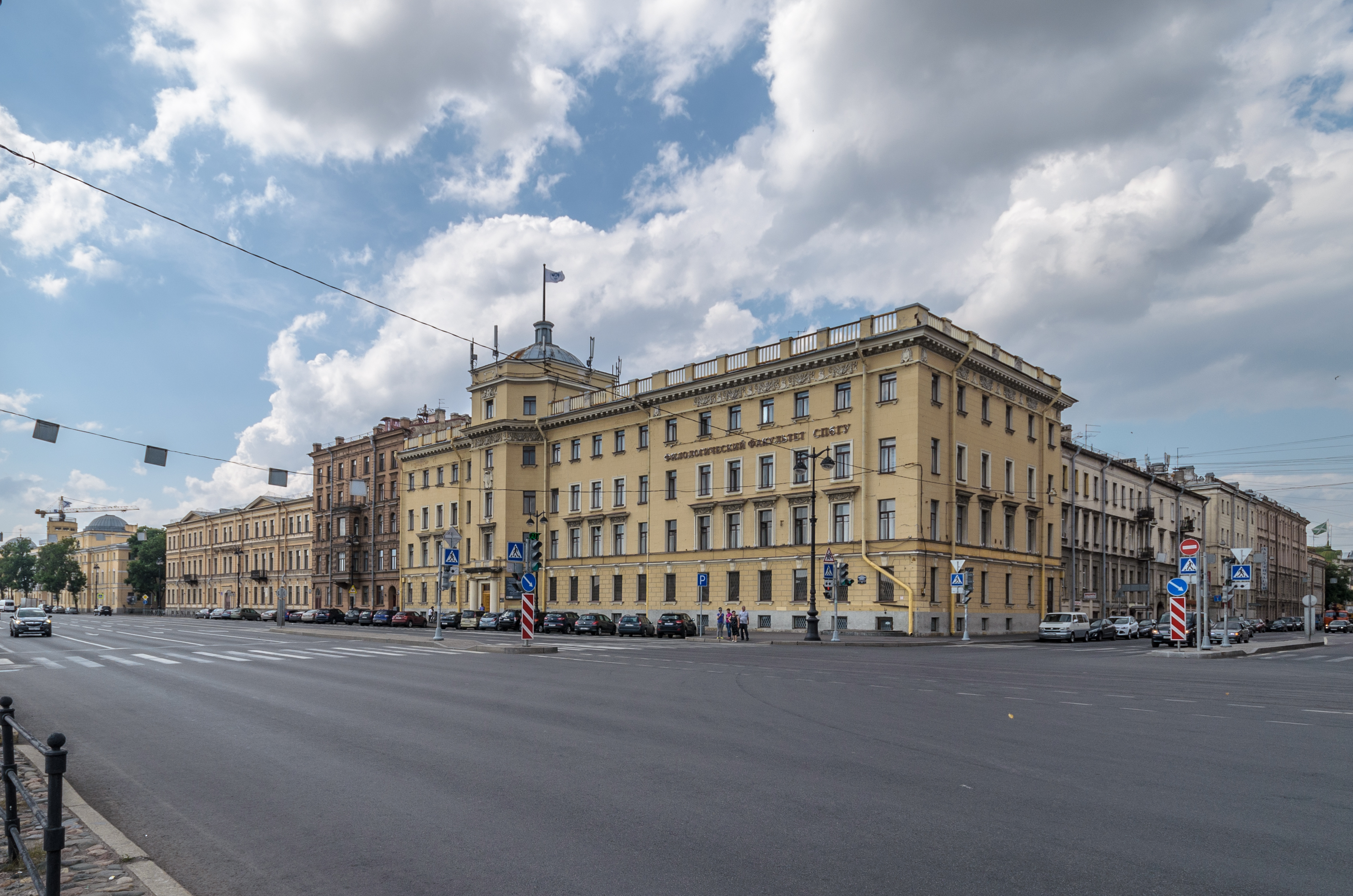 Philological Faculty of St. Petersburg State University at Lieutenant Schmidt Embankment in Saint Petersburg